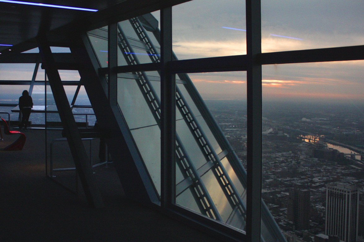 One Liberty Observation Deck, Philadelphia, Pennsylvania, USA. Looking southwest though several windows with setting sun, South Philly and Schuylkill River visible.